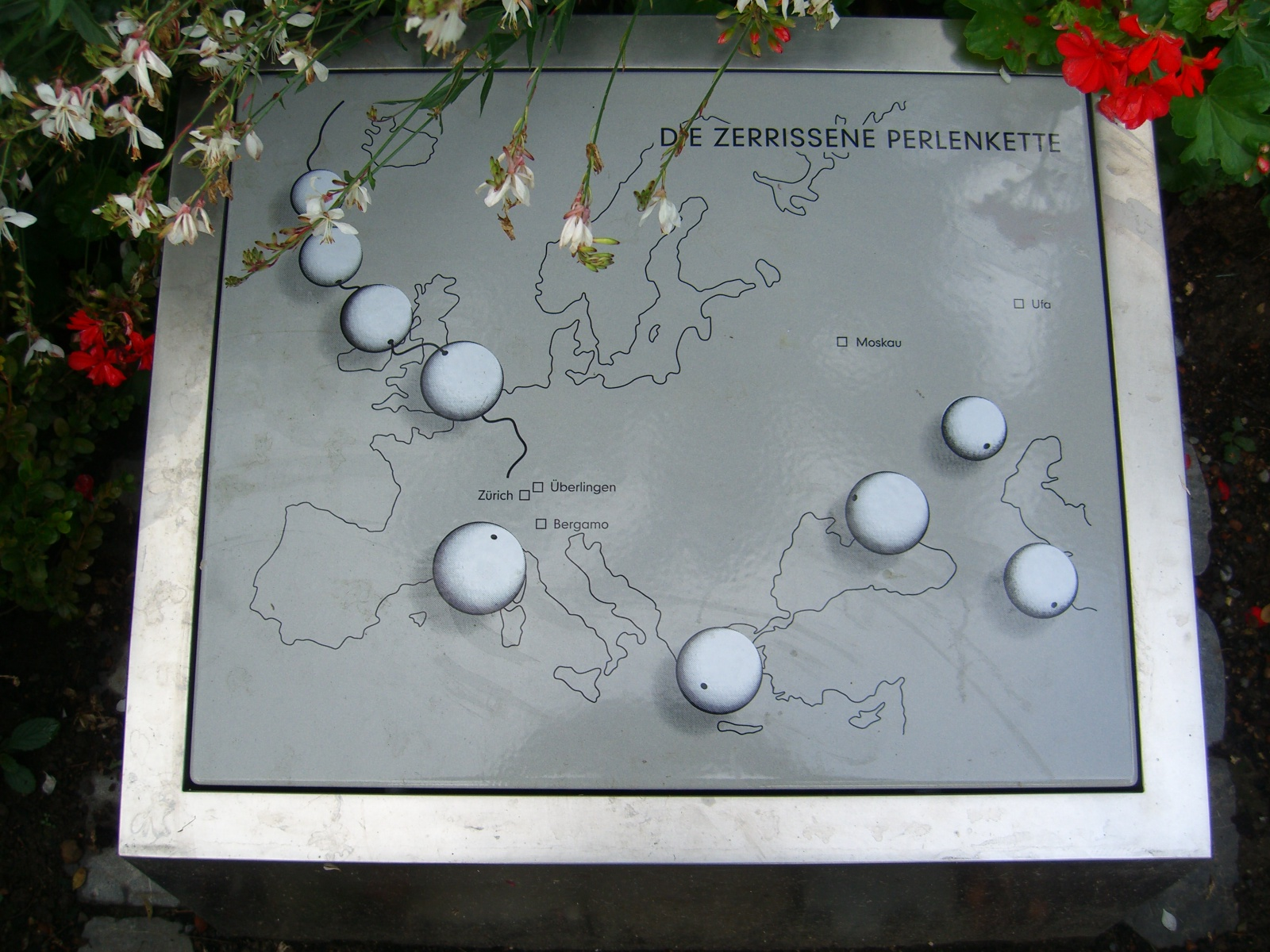 "The broken string of pearls" – memorial tablet for victims of the airplane crash over Überlingen